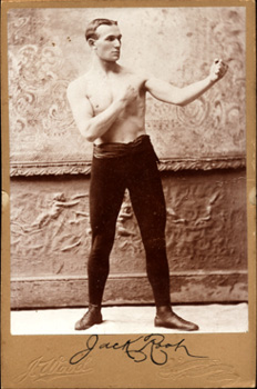 Jack Root (of Oregon) from the Wenatchee Daily World (Wenatchee, WA, USA), Oct. 27, 1914.